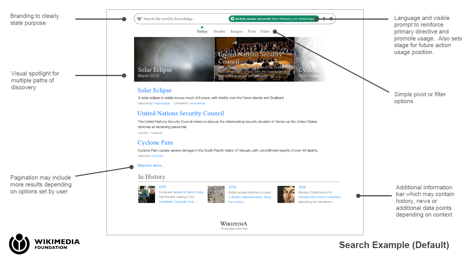 Wikimedia Foundation presentation for the Knight Foundation April 2015